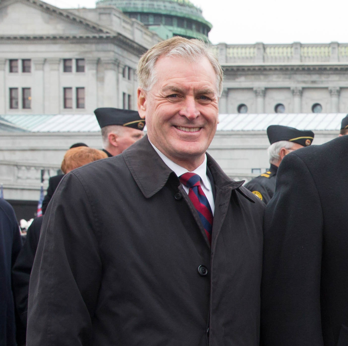 Mark Schweiker, former Governor of Pennsylvania